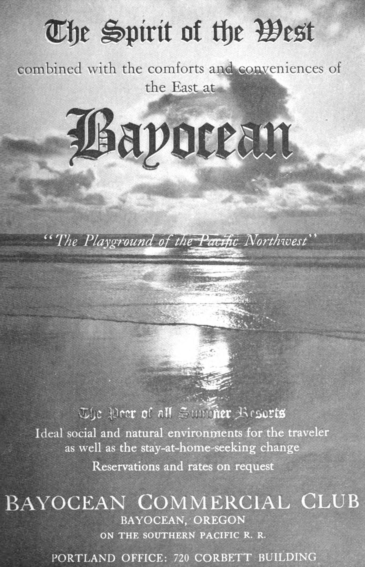 Sunset Magazine, volume 31 (1913)